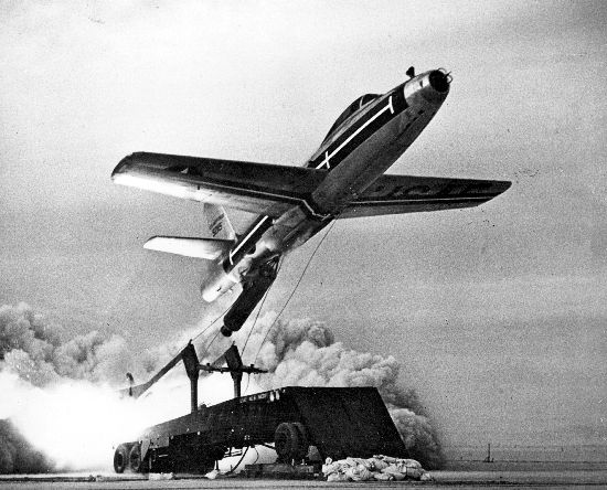 A Republic F-84 Thunderjet blasts off of a launch ramp during testing of the "Zero Length Launch (ZELL)" system.